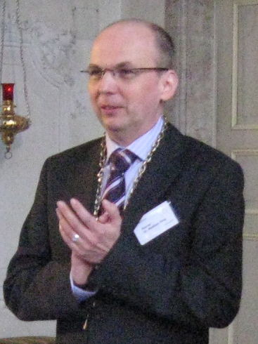 Matthias Ring, at the election of Ring to the position of Diocesan Bishop of the Old Catholic Diocese in Germany and successor to Bishop Joachim Vobbe.